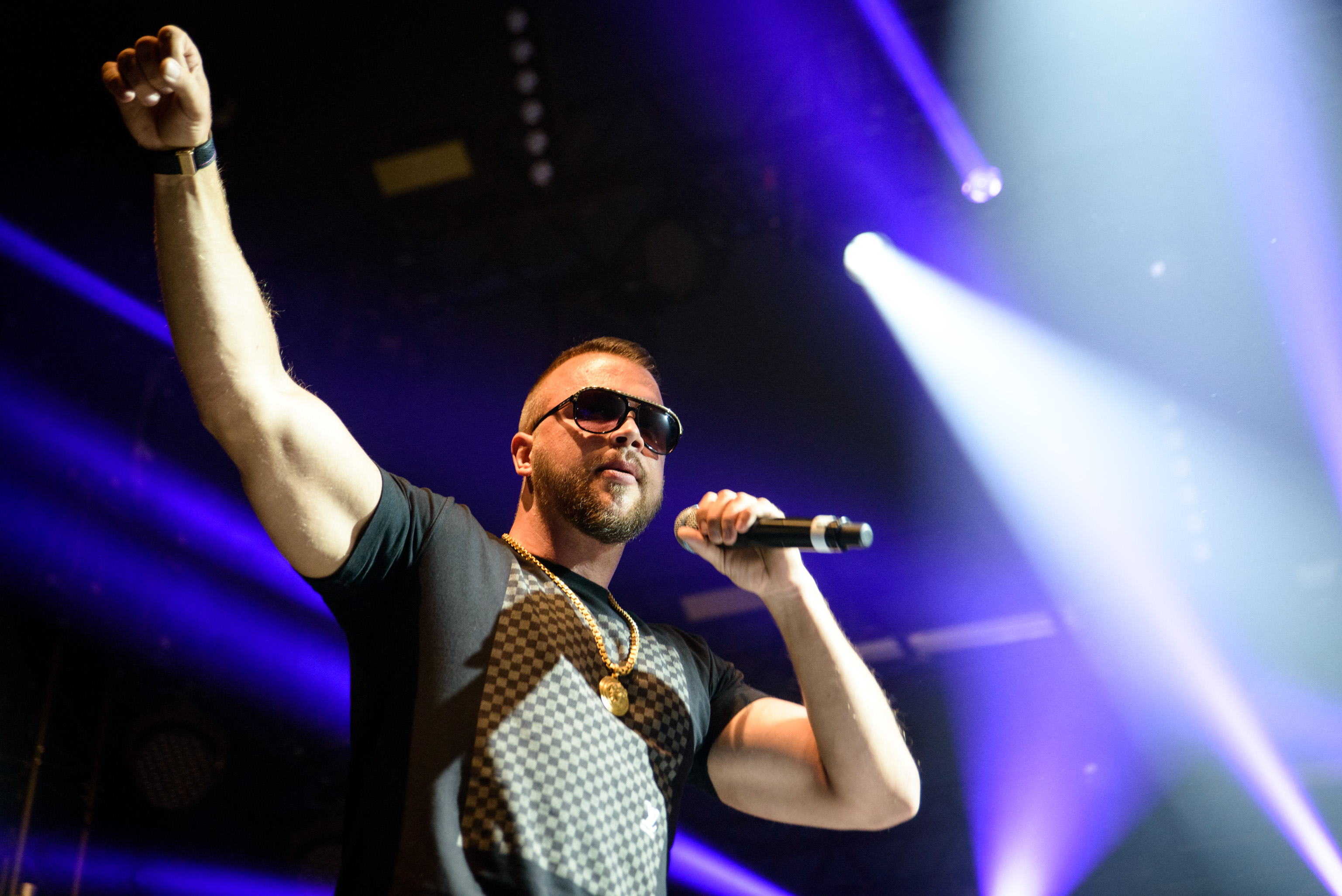 Kollegah in Munich 2015